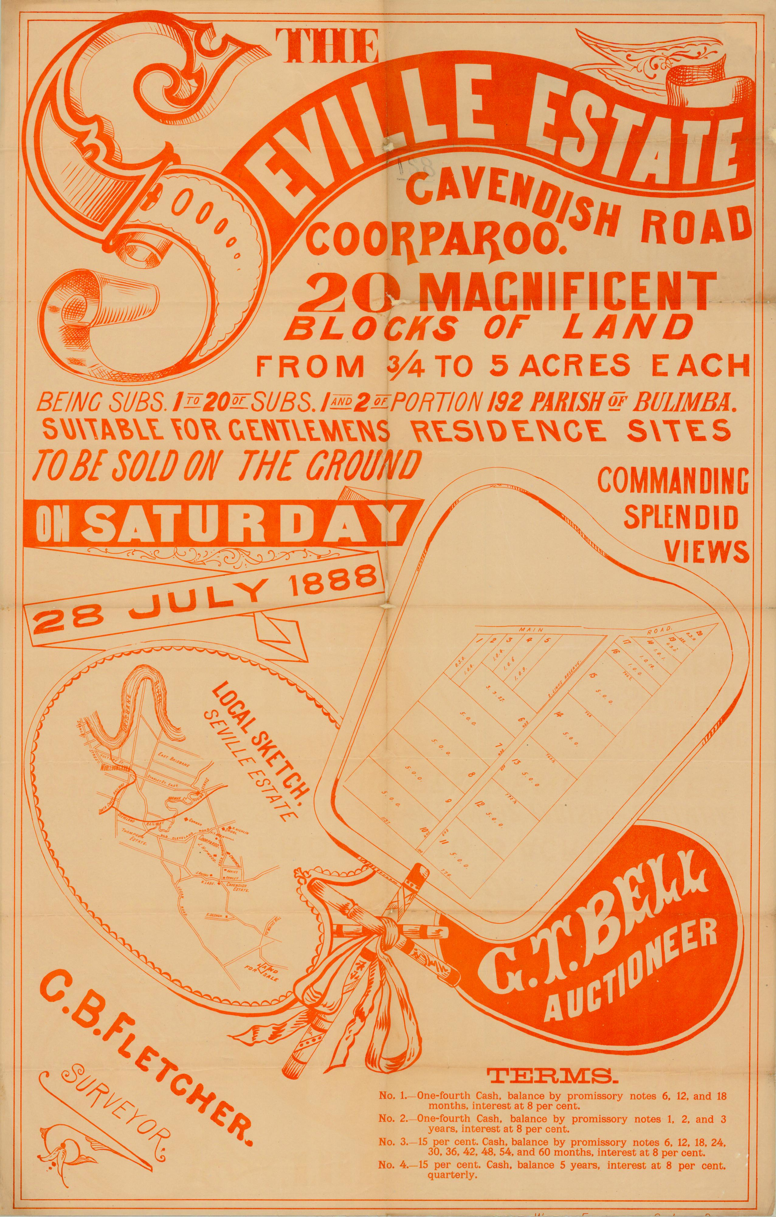 Creator: C. B. Fletcher, surveyor. G. T. Bell, auctioneer. Location: Coorparoo, Queensland. Description: "Being subs. 1 to 20 of subs. 1 and 2 of portion 192 Parish of Bulimba ... To be sold on the ground on Saturday 28 July 1888." 89 x 57 cm. Map includes conditions of purchase and locality map. Read more about SLQ's map collections: View this image at the State Library of Queensland: Information about State Library of Queensland’s collection: You are free to use this image without permission. Please attribute State Library of Queensland.